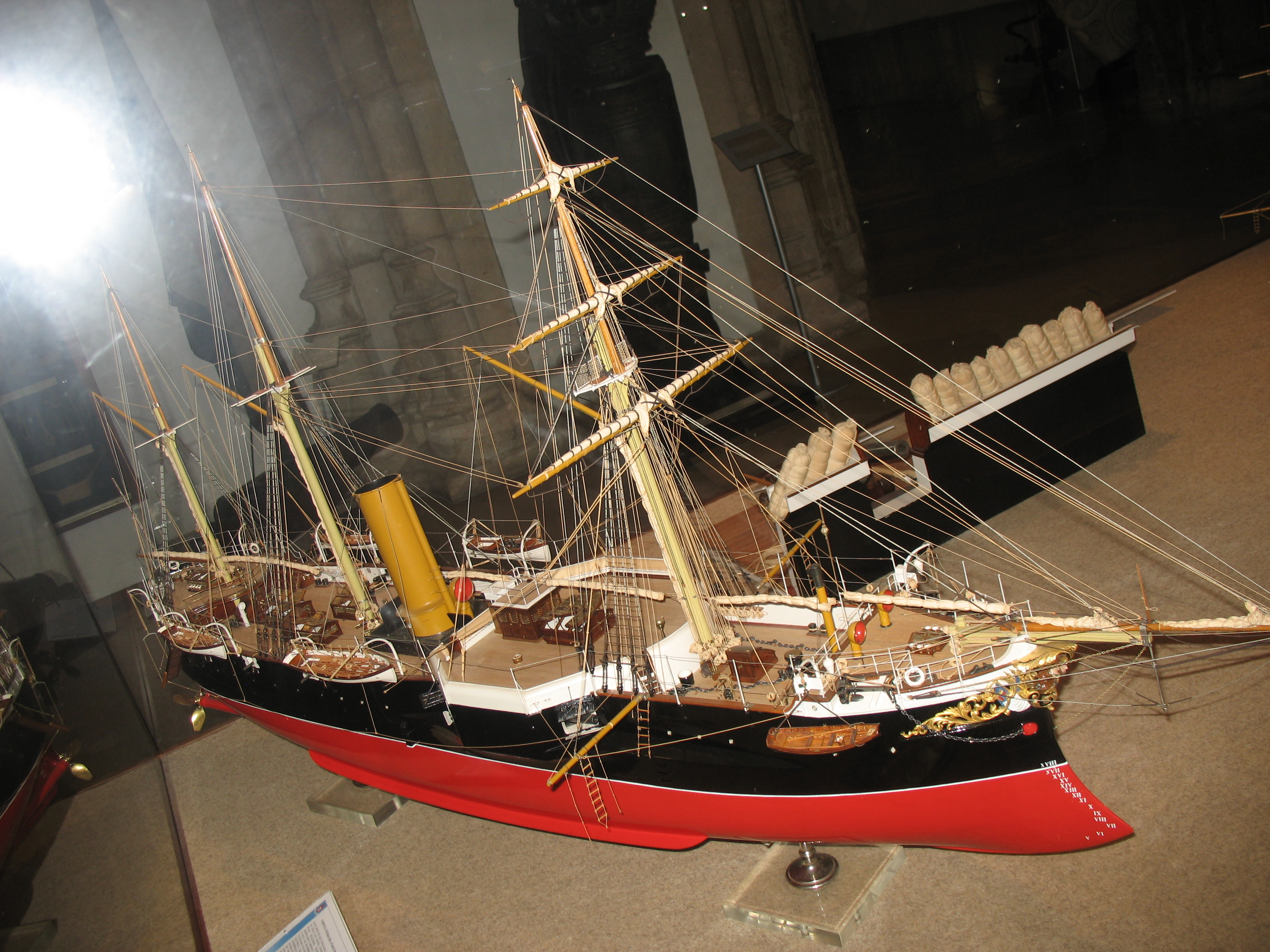 Photograph by Nct